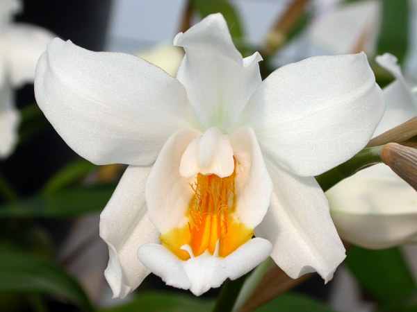 Coelogyne cristata